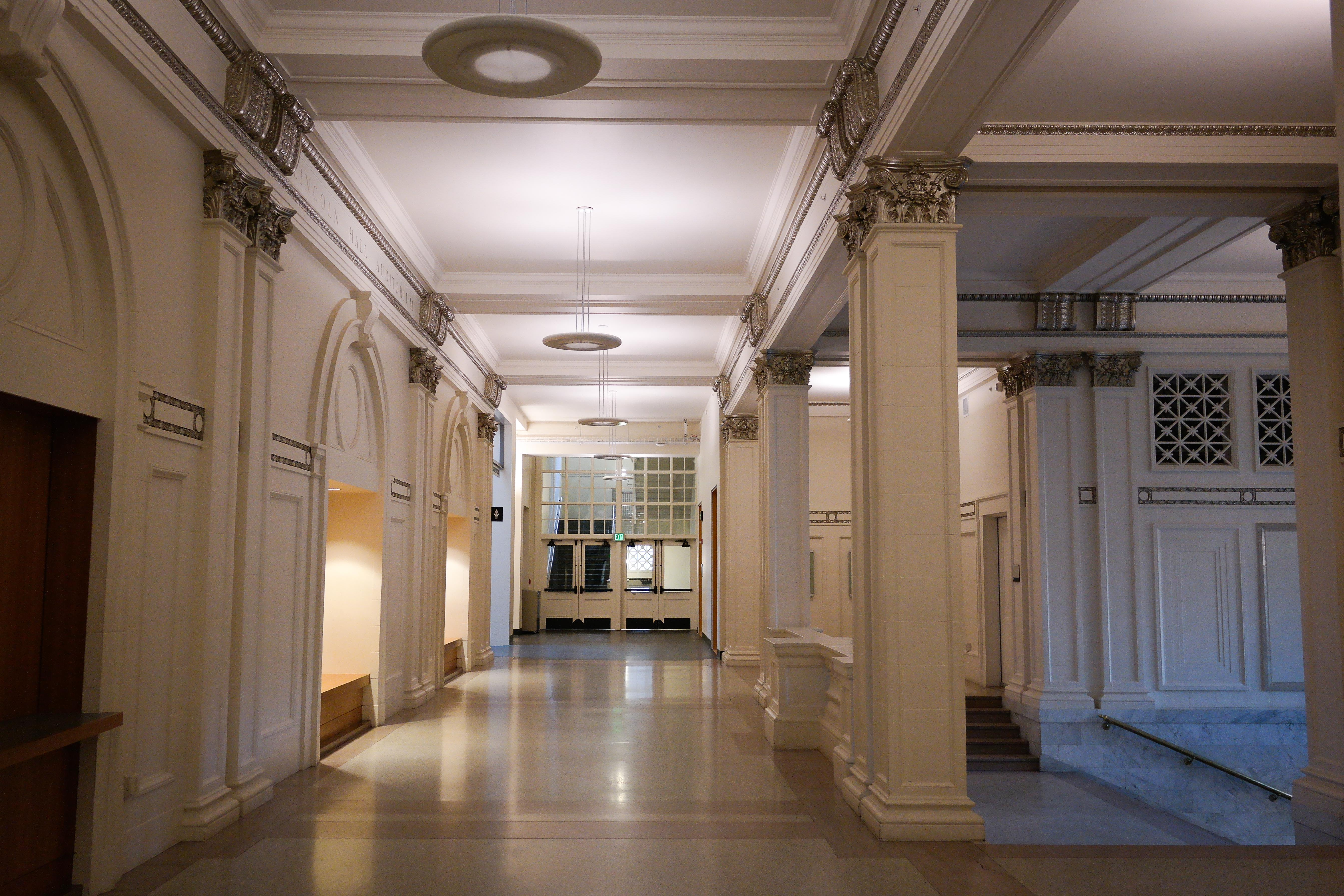 Details of Lincoln Hall at Portland State University